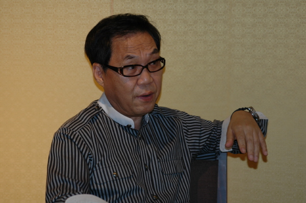 very famous South Korean singer, Cho Youngnam.